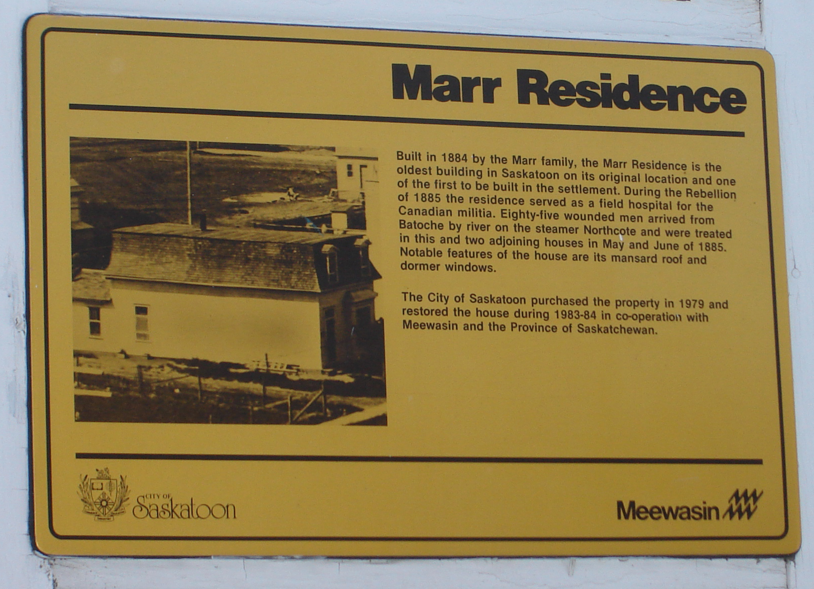 Saskatoon Heritage Society Protected Blocks and Houses Marr Residence Nutana, Nutana SDA, Saskatoon, Saskatchewan, Canada